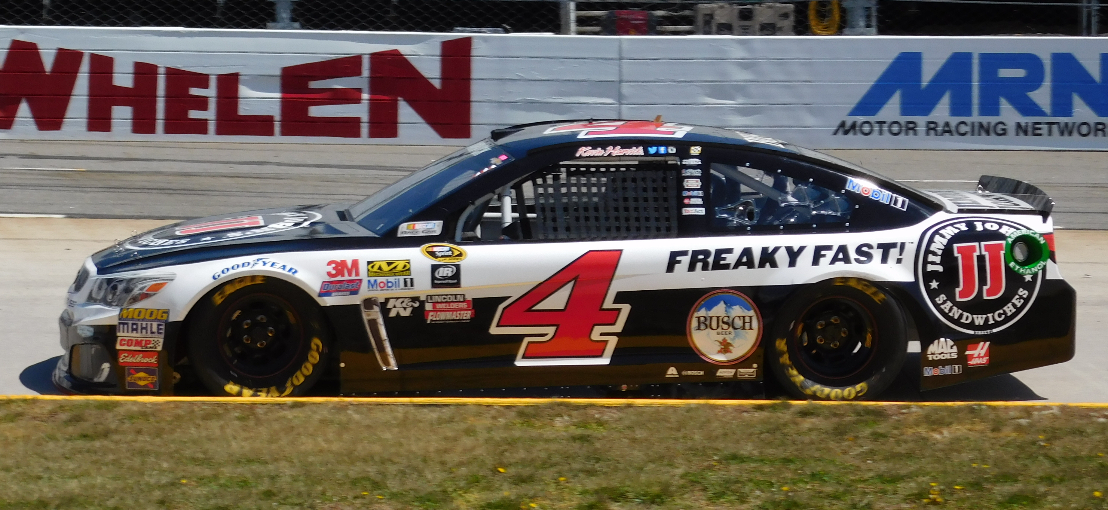 Kevin Harvick's No. 4 Jimmy John's Chevrolet at Martinsville Speedway in 2016